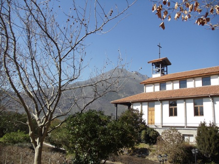 Santuario Santa Teresa de los Andes, Auco, Chile